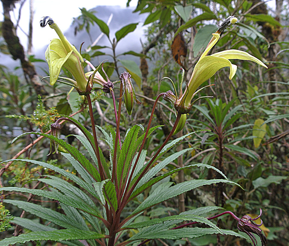 Native to the Andes of northern Ecuador. Photo from near the Papallacta Hotsprings. In context at